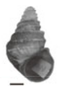 Black-ang white photo of an apertural view of the shell of Margarya bicostata (holotype, IOZ), Lake Fuxian. Scale bar is 1 cm.